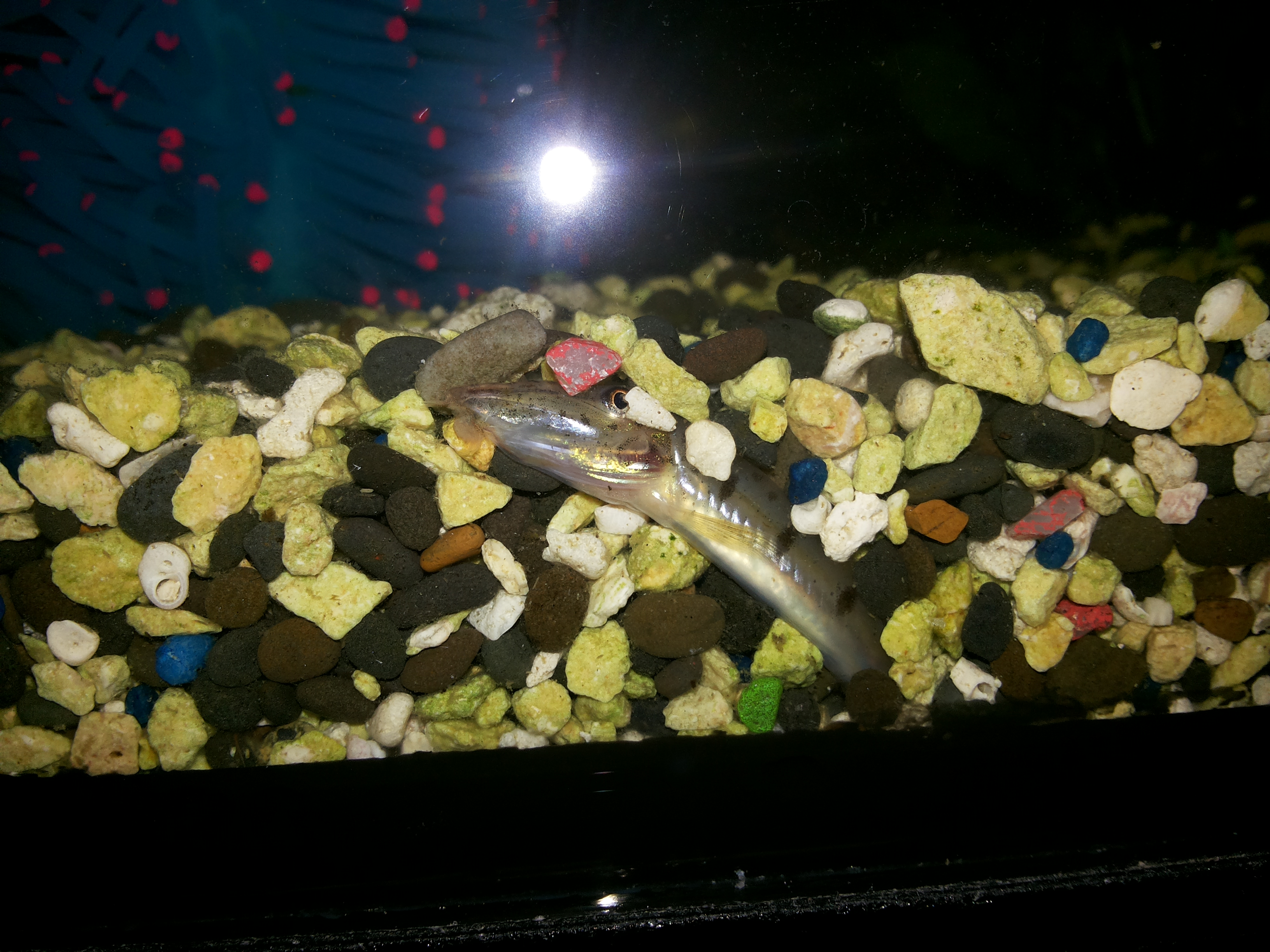 this image shows a horseface loach under aquarium gravel